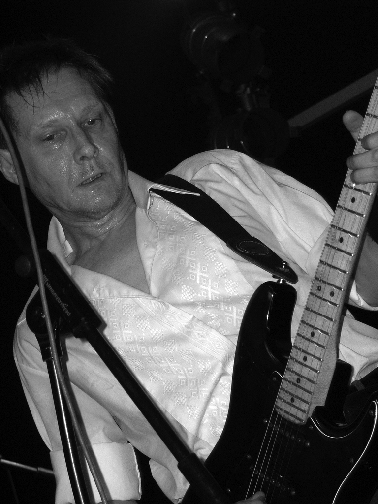 Jo Callis 2008